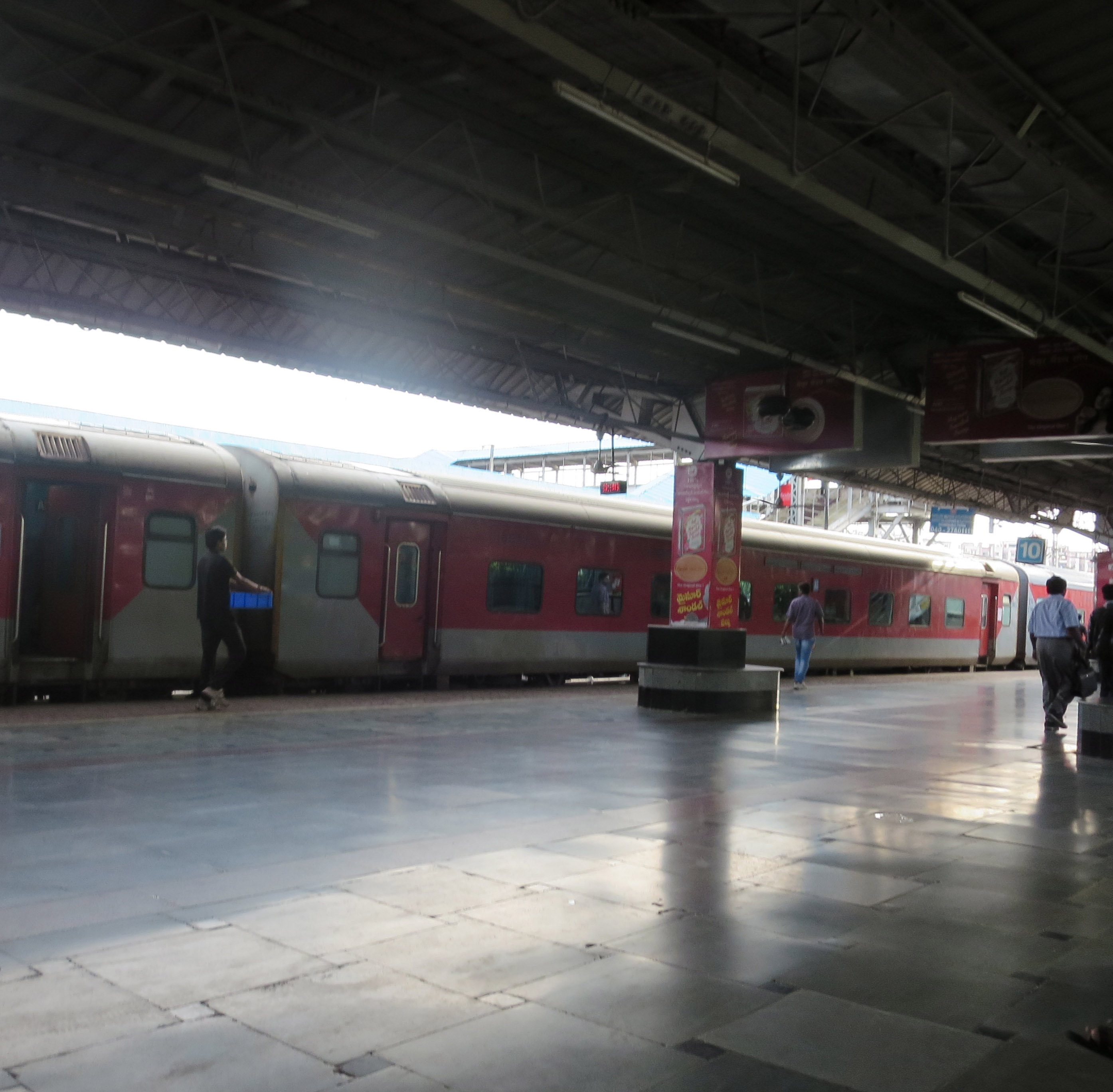 LHB rakes of SBC-HZM Rajdhani Express at Secunderabad Junction